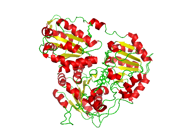 Acetolactase Synthase